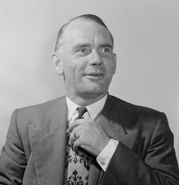 Cyril Washbrook, member of the touring English cricket team, photographed circa 5 April 1951 by an Evening Post photographer.